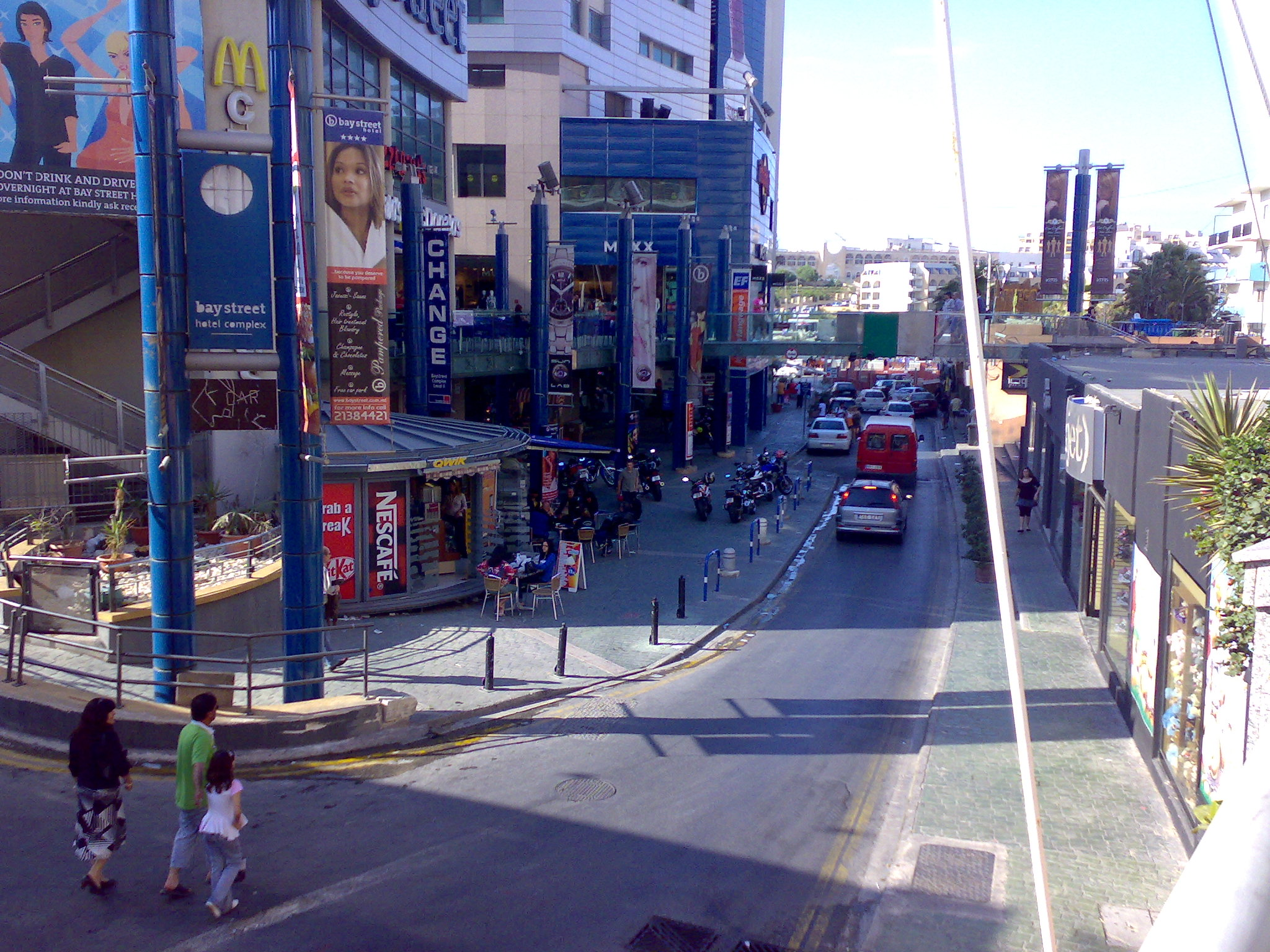 St. Julians Bay Street